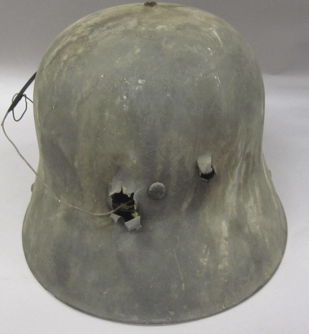 Accession: 61-124-V Helmet, German, M16, Identification Tag. 6,45 H x 11 5/16 W Identification Tag is attached to helmet with metal wire. Tag identifies the owner as being Ludwig Okulla. Reverse view shows damage from exit of bullet. Helmet has liner with damage from the bullet entry site Collection of Curator Branch, Naval History and Heritage Command